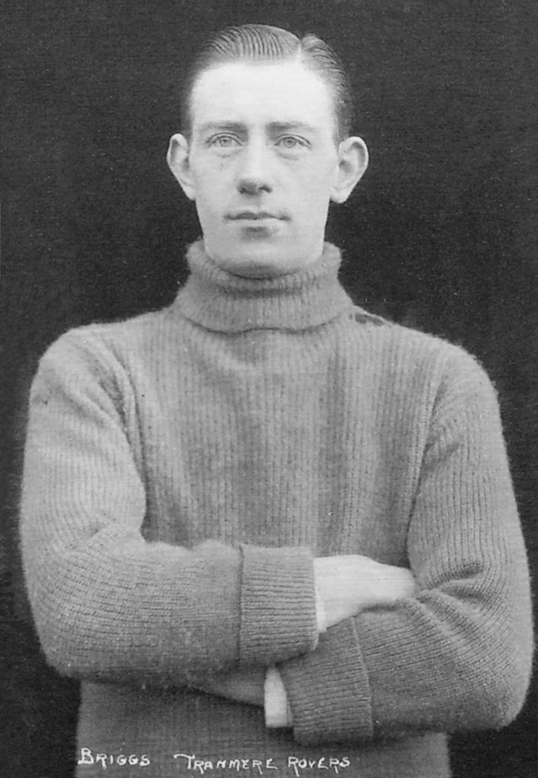 Arthur Briggs took over the Tranmere Rovers goalkeeper's shirt from Frank Mitchell in 1924 and kept it for eight years, during which time he made 246 appearances. Signed from Hull City, he was virtually an ever-present for several seasons.